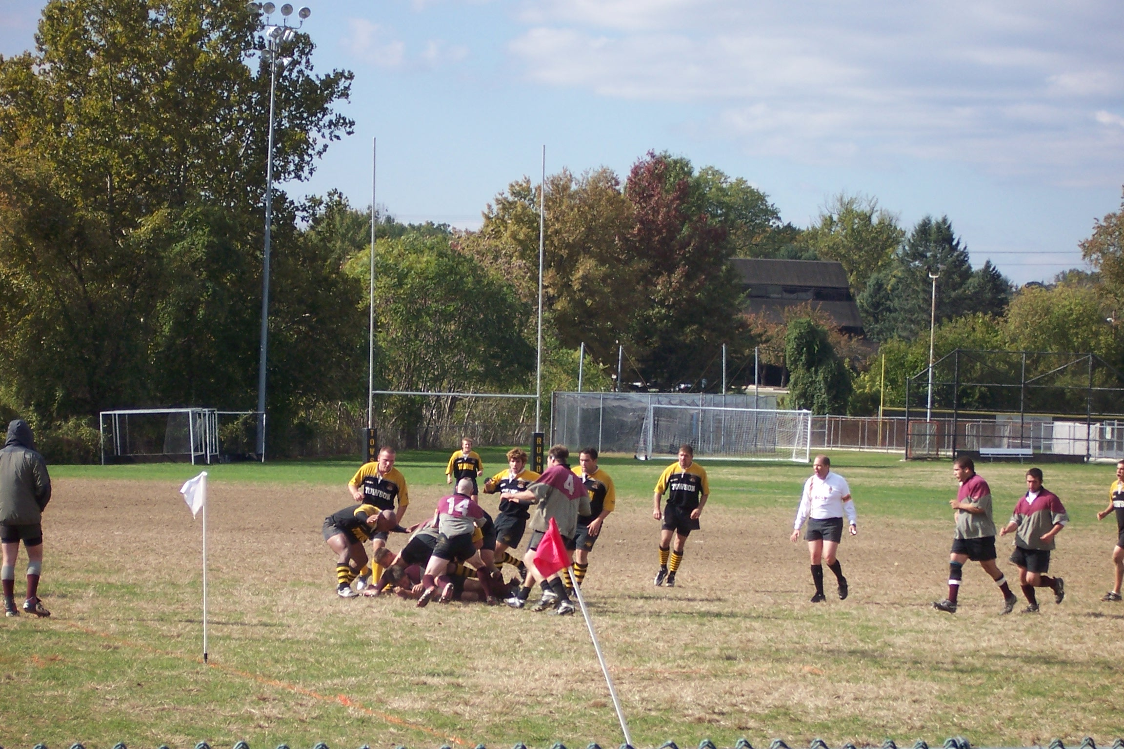 Towson University, Towson's club Rugby team in action. Taken by me, 29 October 2005.